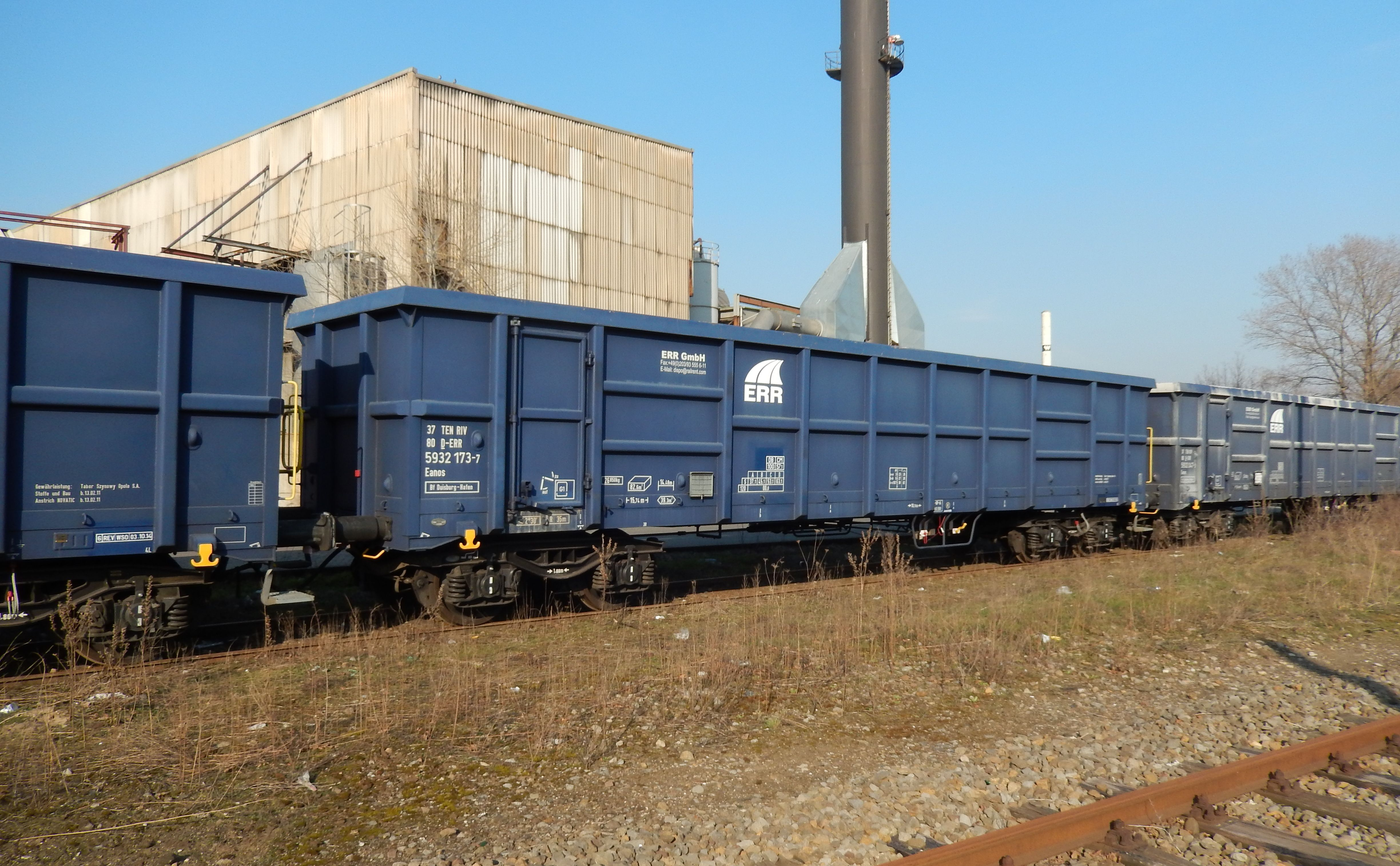 Open railway waggon.